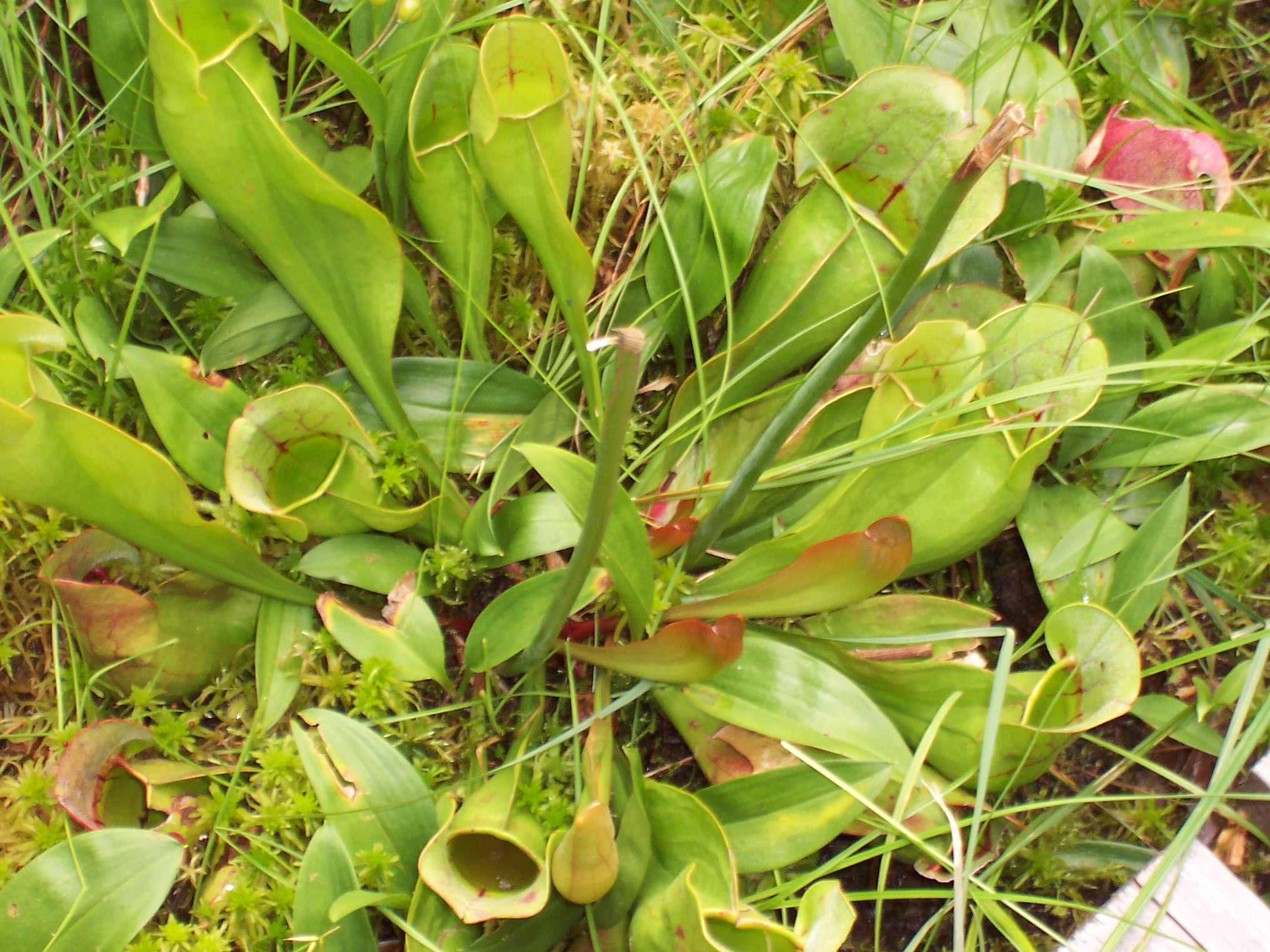 Sarracenia purpurea - La Tourbière trail - St-Daniel sector - Frontenac National Park (Québec, Canada) - July 2008